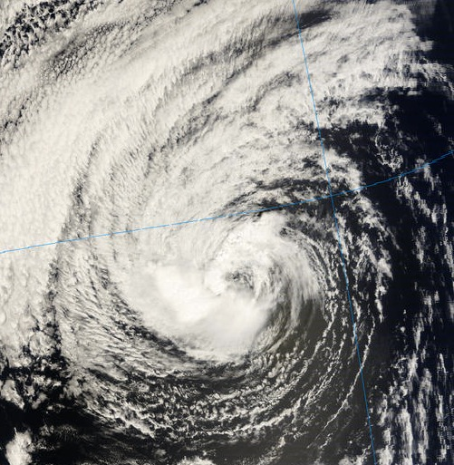 Hurricane Marie of October 5, 2008